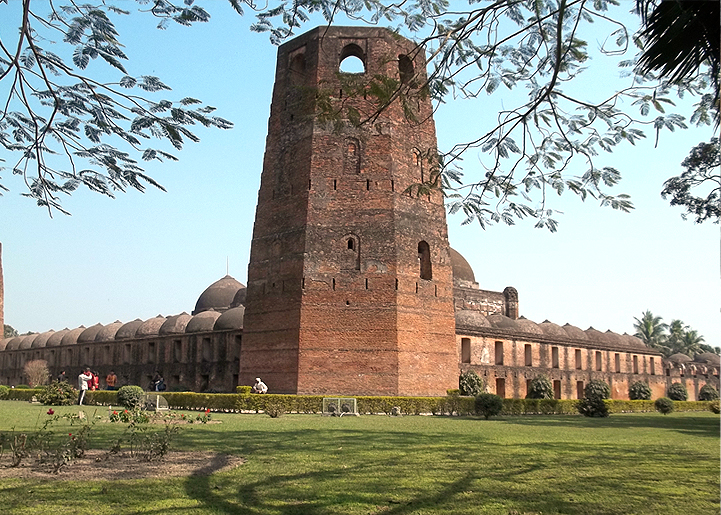 Katra Mosque - Murshidabad